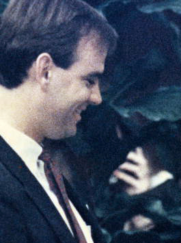 Accompanying note "Three-year-old Elizabeth Dantzler seems very pleased with herself after testing out her father microphone on opening day of the Florida Legislature. Dad, Rep. Rick Dantzler, D-Winter Haven, (l), seems to think she did a pretty good job too."